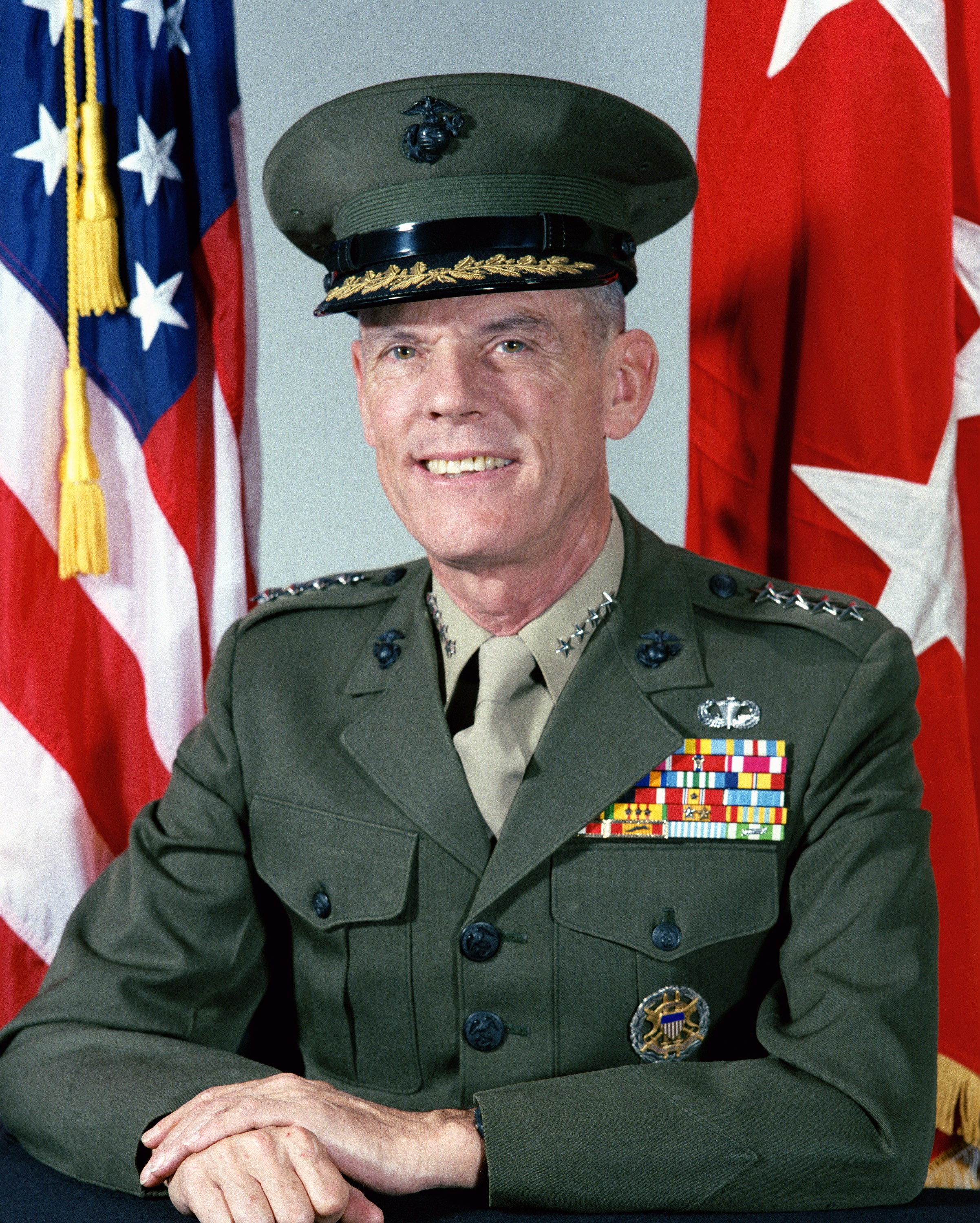 Marine Corps General George B. Crist, former commander of CENTCOM.